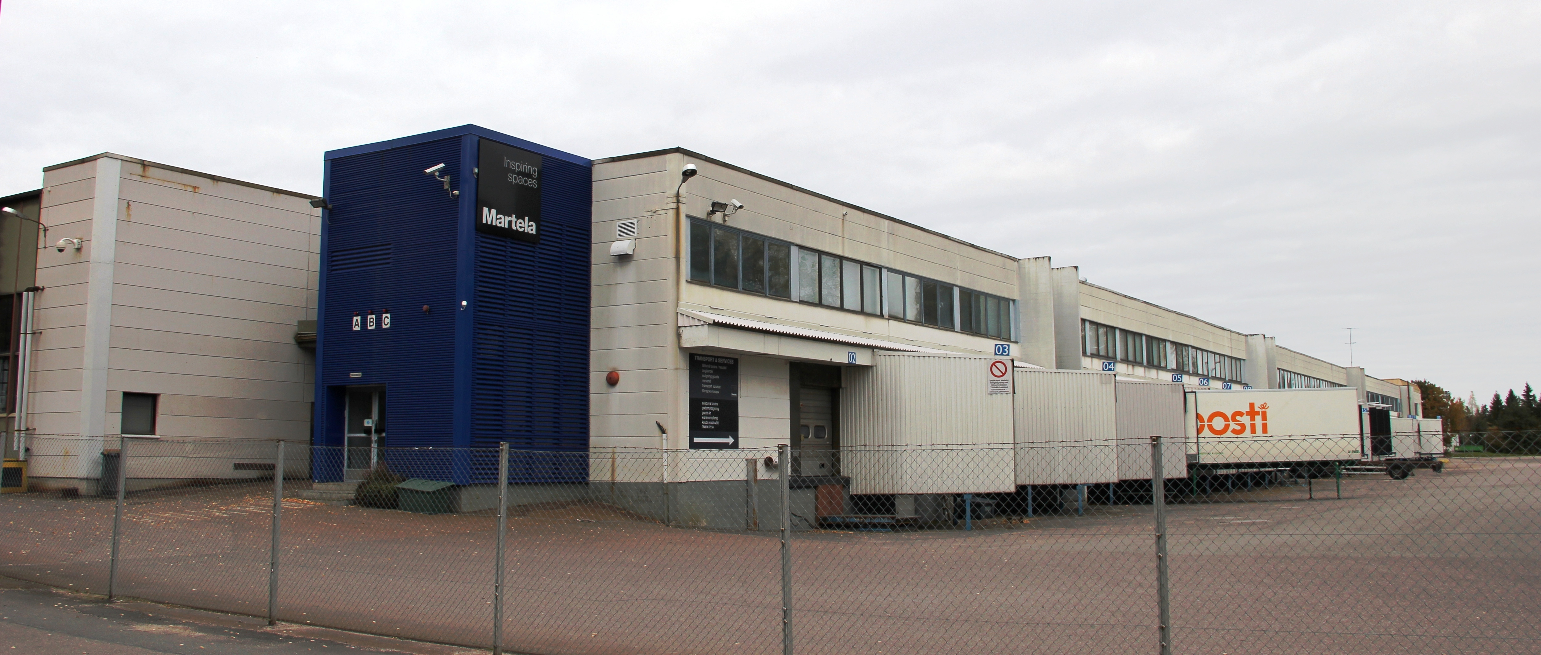 Martela Production plant on Ojakkalantie road, in Nummela, Vihti, Finland